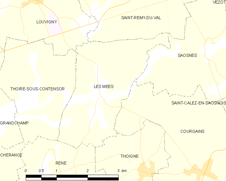 Map of French municipality